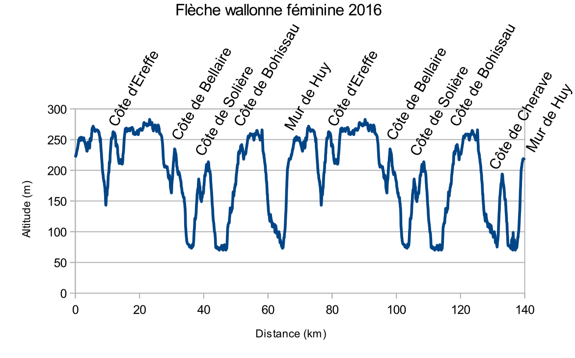 Profile of the Flèche wallonne féminine 2016.